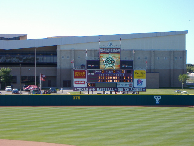 Final Scoreboard at the 2005-06 Lone Star Showdown game @ Olsen Field (Game 2)